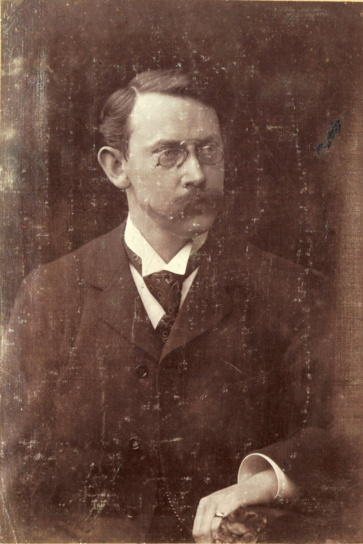 Georg Bohlmann, 1869-1929, german mathematician